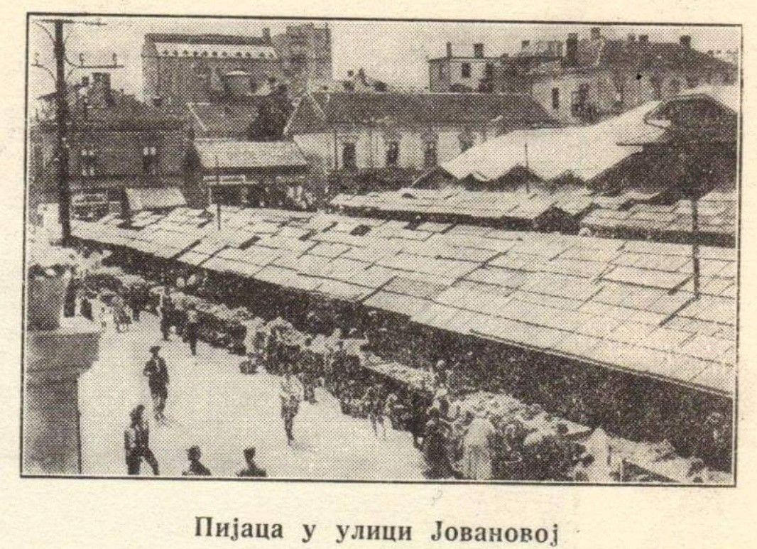 Green market Jovanova, Belgrade, about 1930. Srpski (latinica): Jovanova pijaca u Beogradu, fotografija oko 1930. godine